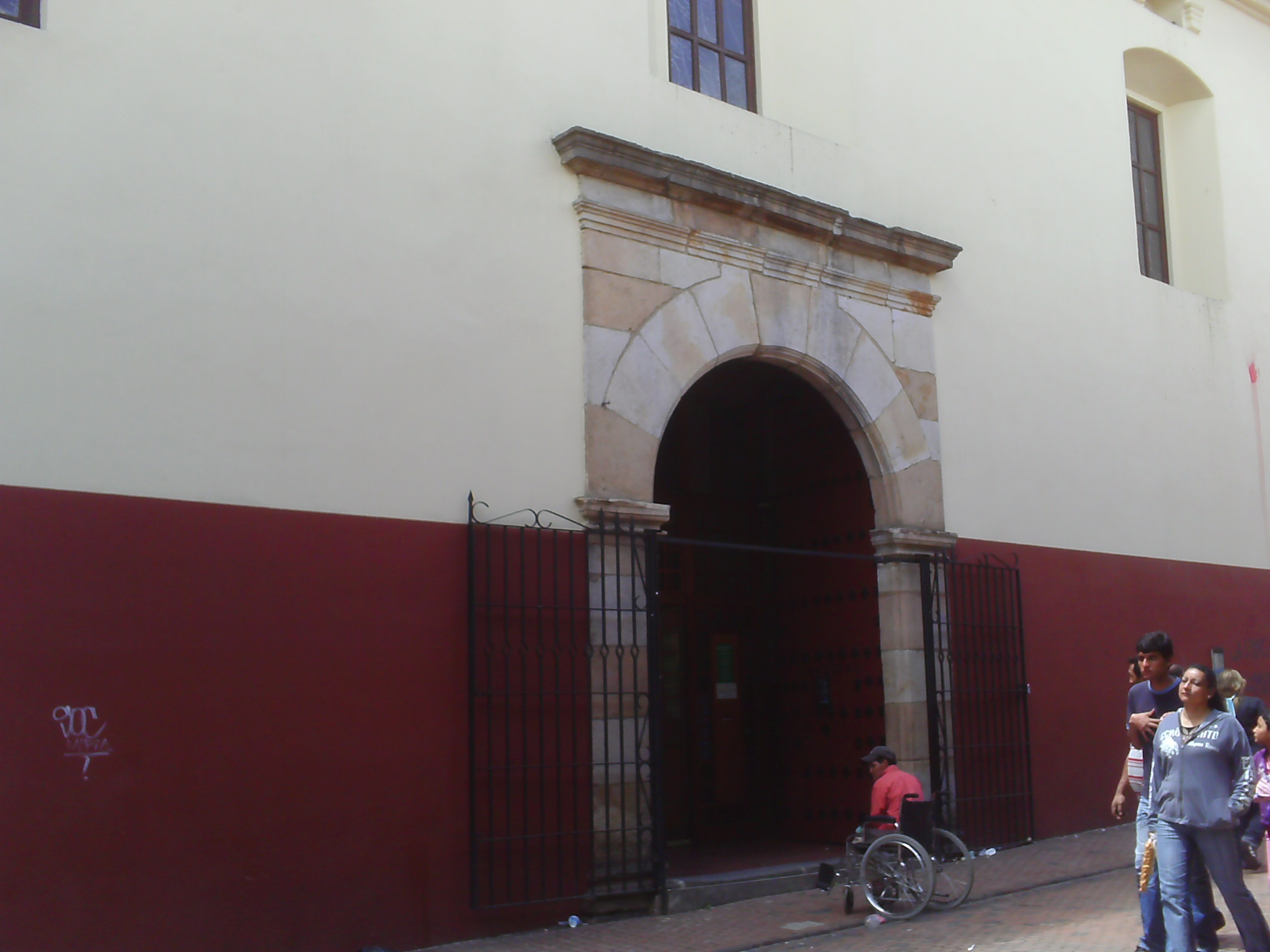 Church of La Concepcion, Bogotá (Colombia)